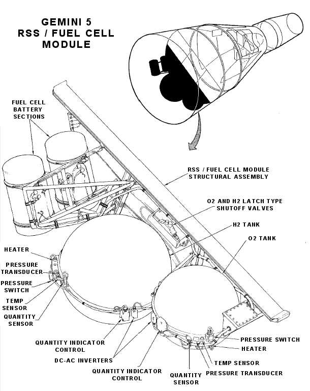 Gemini 5 Fuel Cells diagram.